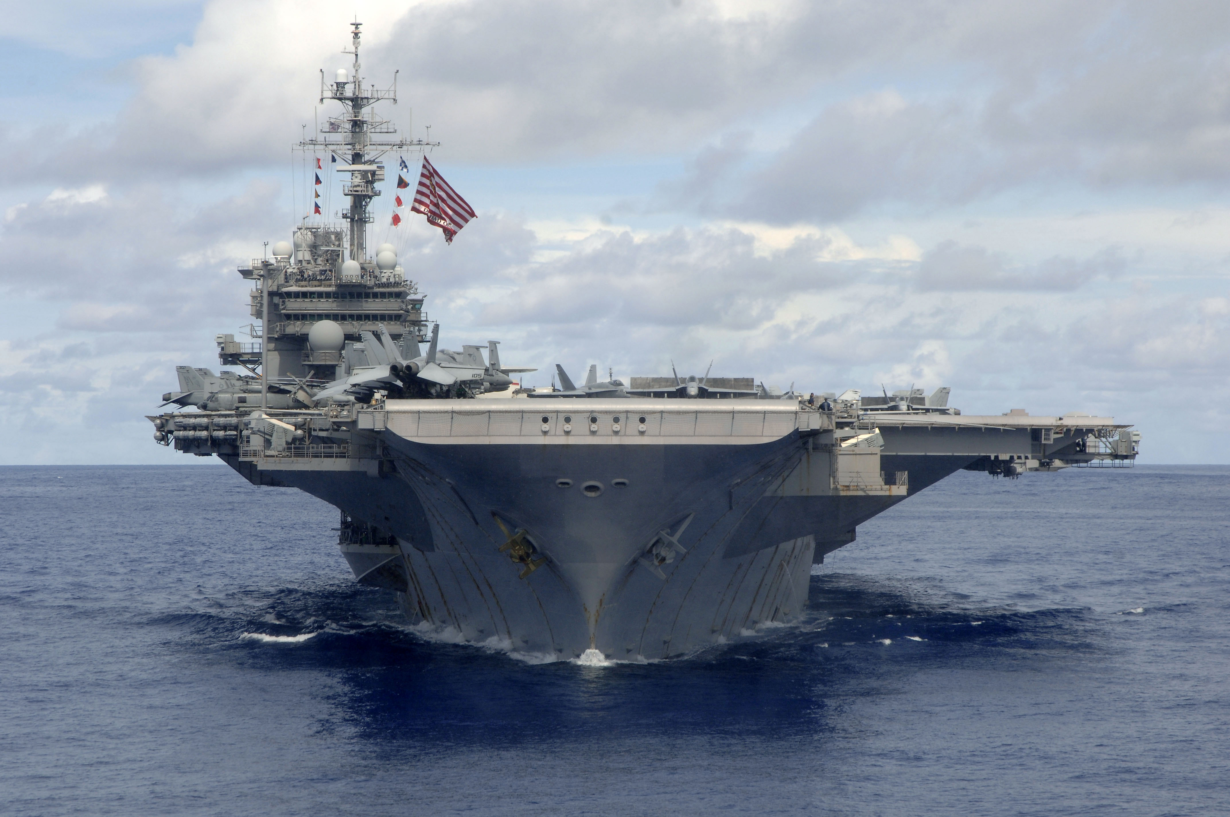 USS Kitty Hawk (CV 63) steams in formation during a joint photo exercise during exercise Valiant Shield 2007 while at sea Aug.14, 2007. The joint exercise consists of 28 naval vessels, more than 300 aircraft, and approximately 20,000 service members from the Navy, Army, Air Force, Marine Corps and Coast Guard. (U.S. Navy photo by Mass Communication Specialist Seaman Stephen W. Rowe) (Released)